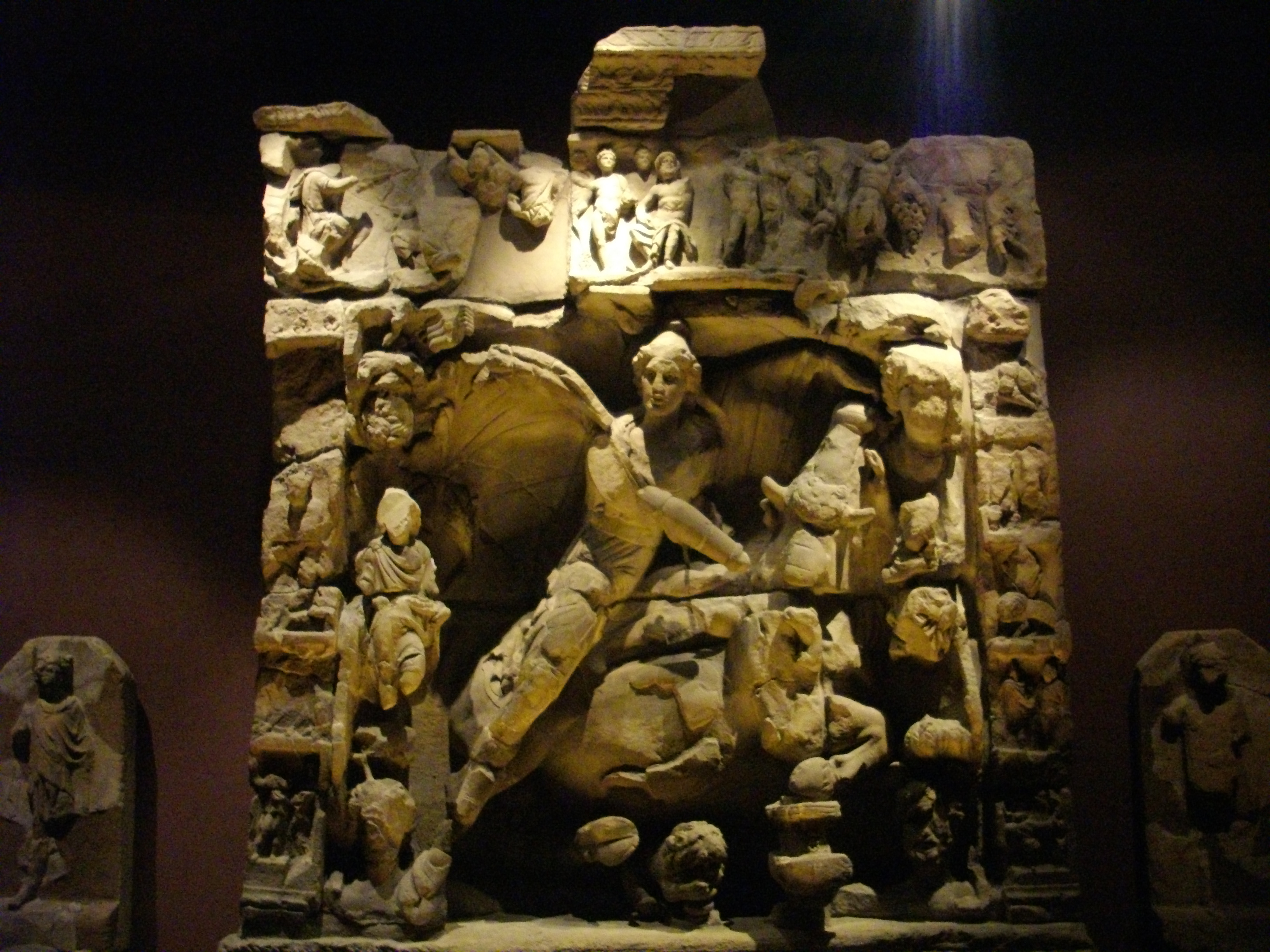 Temple of Mithra in Sarrebourg. Kept in Musées de la Cour d'Or